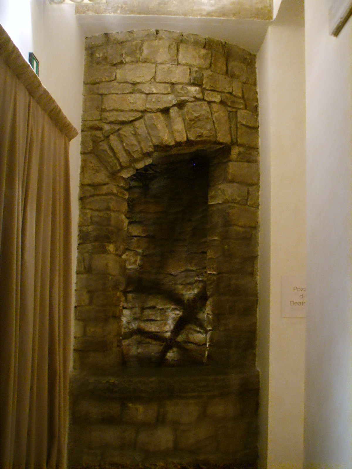 The so-called "Beatrice's well" in Palazzo Spini Feroni in Florence, Italy.